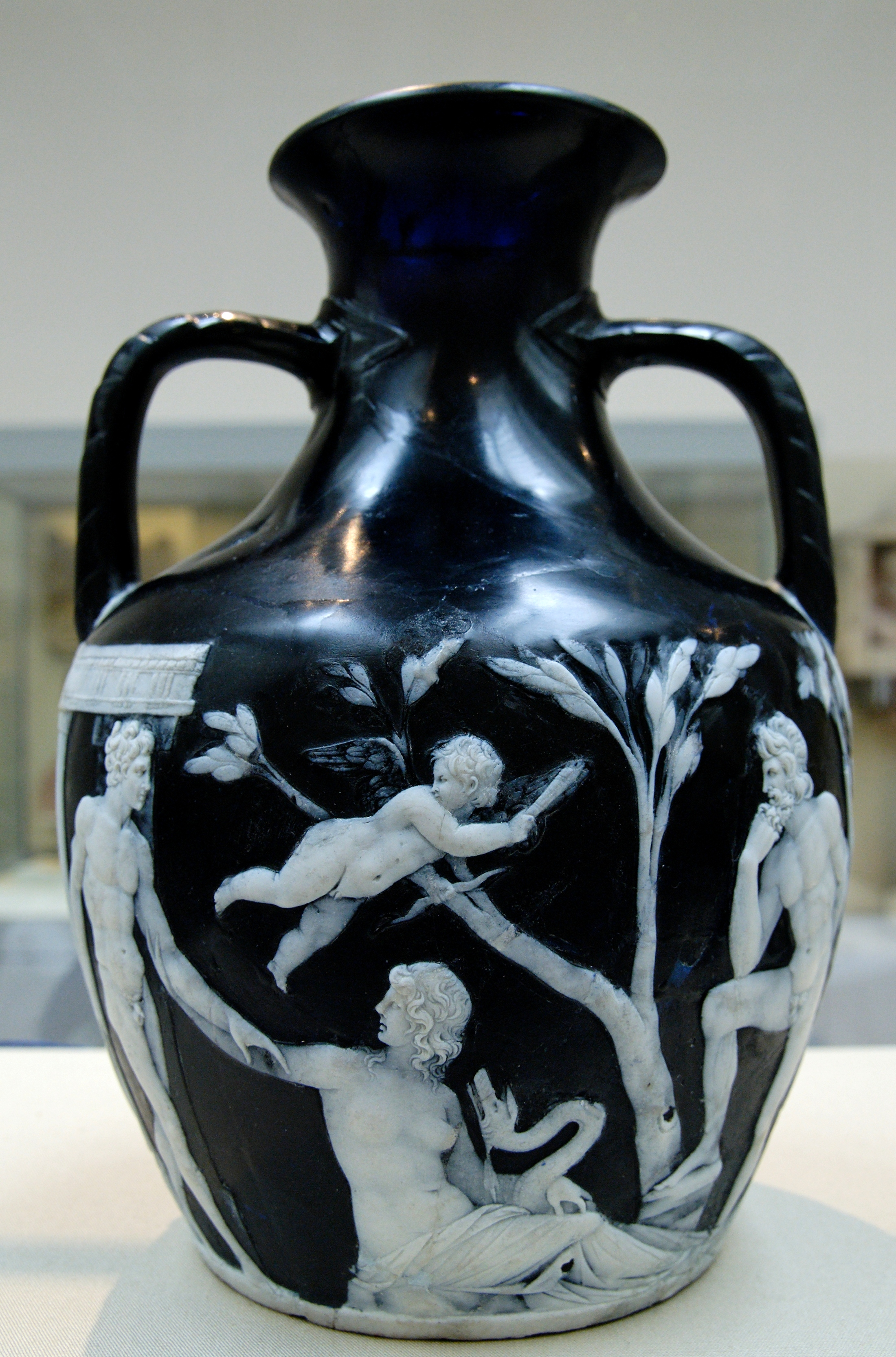 Side A of the Portland Vase. Cameo-glass, probably made in Italy ca. 5-25 AD.